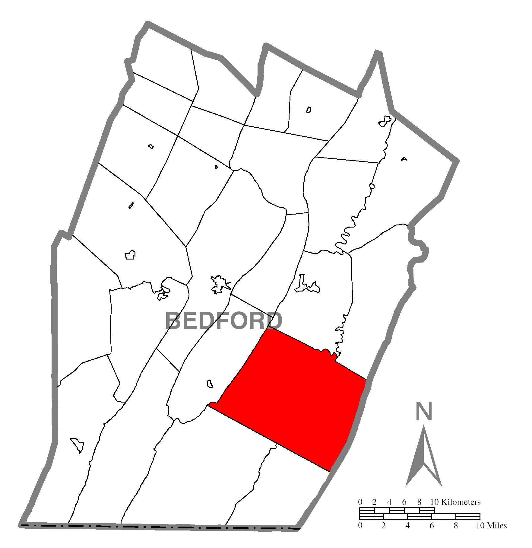 A map of Bedford County showing Monroe Township, Pennsylvania (alternate) highlighted on the map.